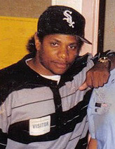 With Eazy-E as an LAPD Explorer.